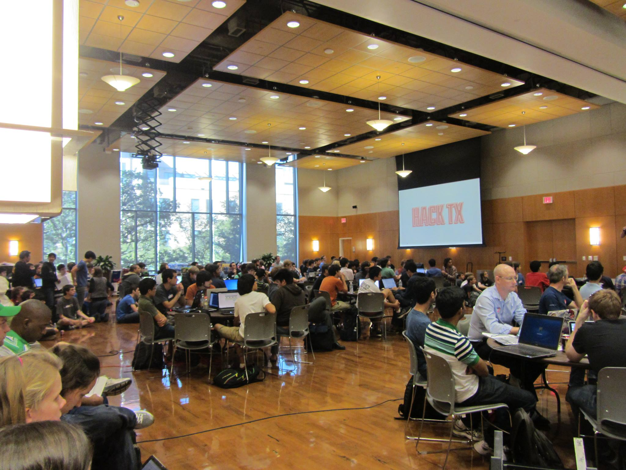 HackTX 2012 More Participants